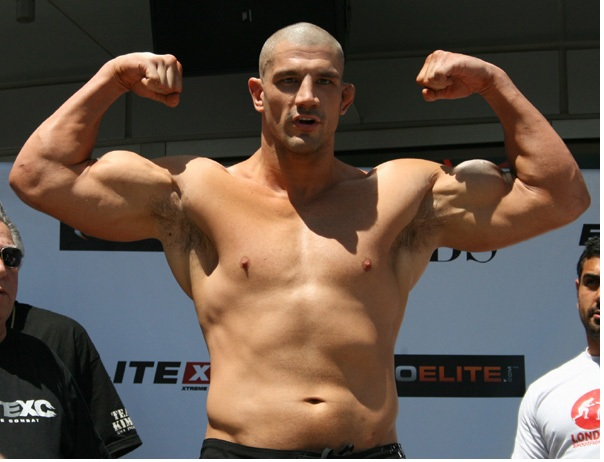 Picture of Paul Meng tensing bicep.